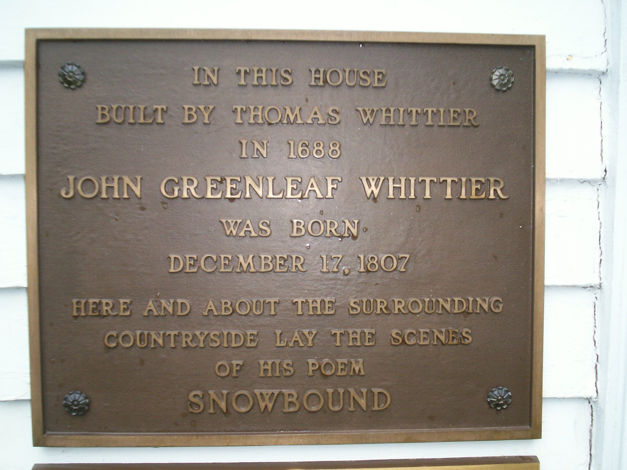 Dedication plaque for the birthplace of American poet John Greenleaf Whittier (1807-1892) in Haverhill, Massachusetts. The home now serves as a museum open to the public.